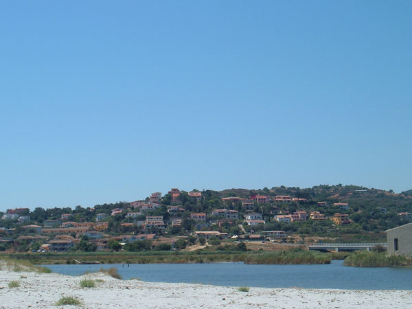 View of beach and houses on hillside, La Caletta. Taken in summer 2006.